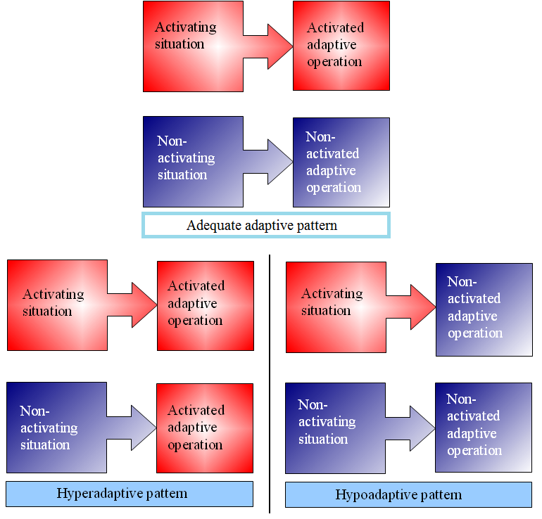 Adaptive patterns. Based on information from Tapu CS "Hypostatic Personality: Psychopathology of Doing and Being Made", Premier, 2001.